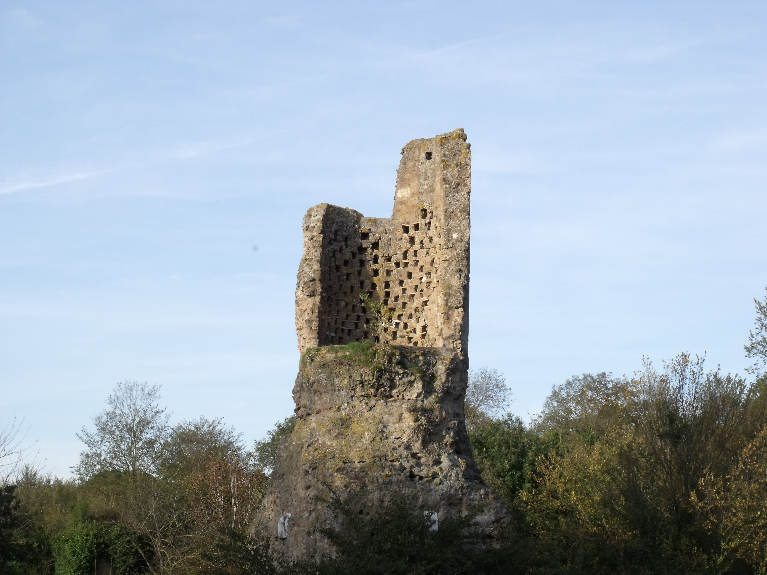 Roman tomb in Ocriculum (Otricoli), Province of Terni, Umbria, Italy